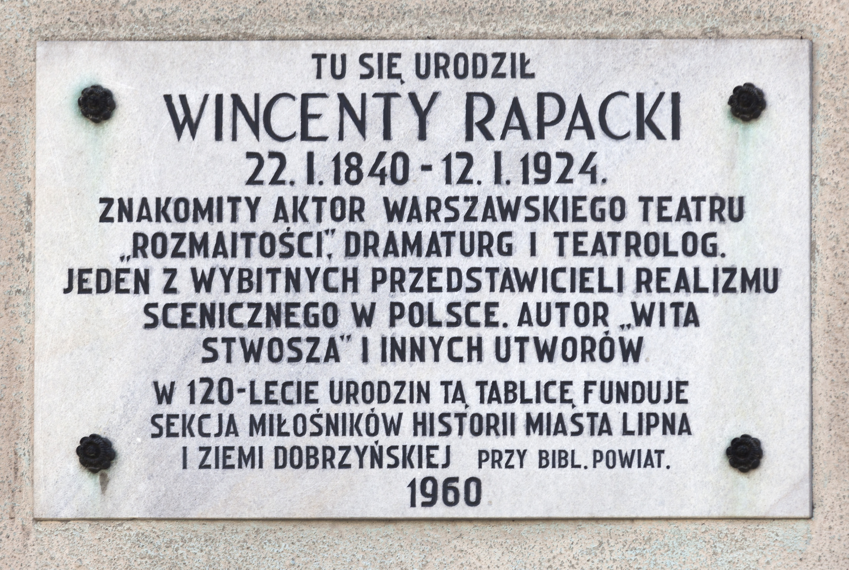 Commemorative plaque on house in Lipno in which Polish actor Wincenty Rapacki was born.